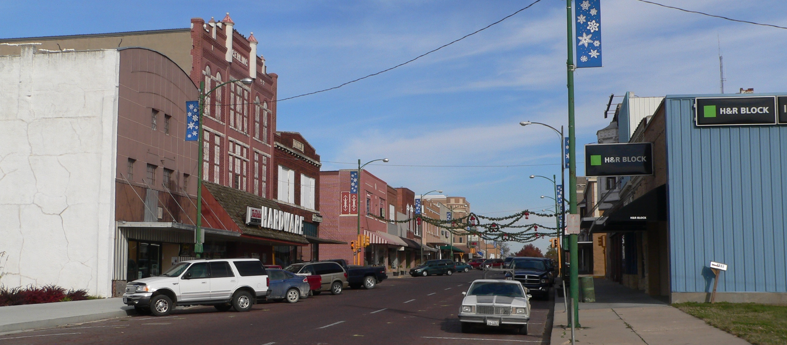 Falls City, Nebraska: Stone Street, looking north from about 15th Street.